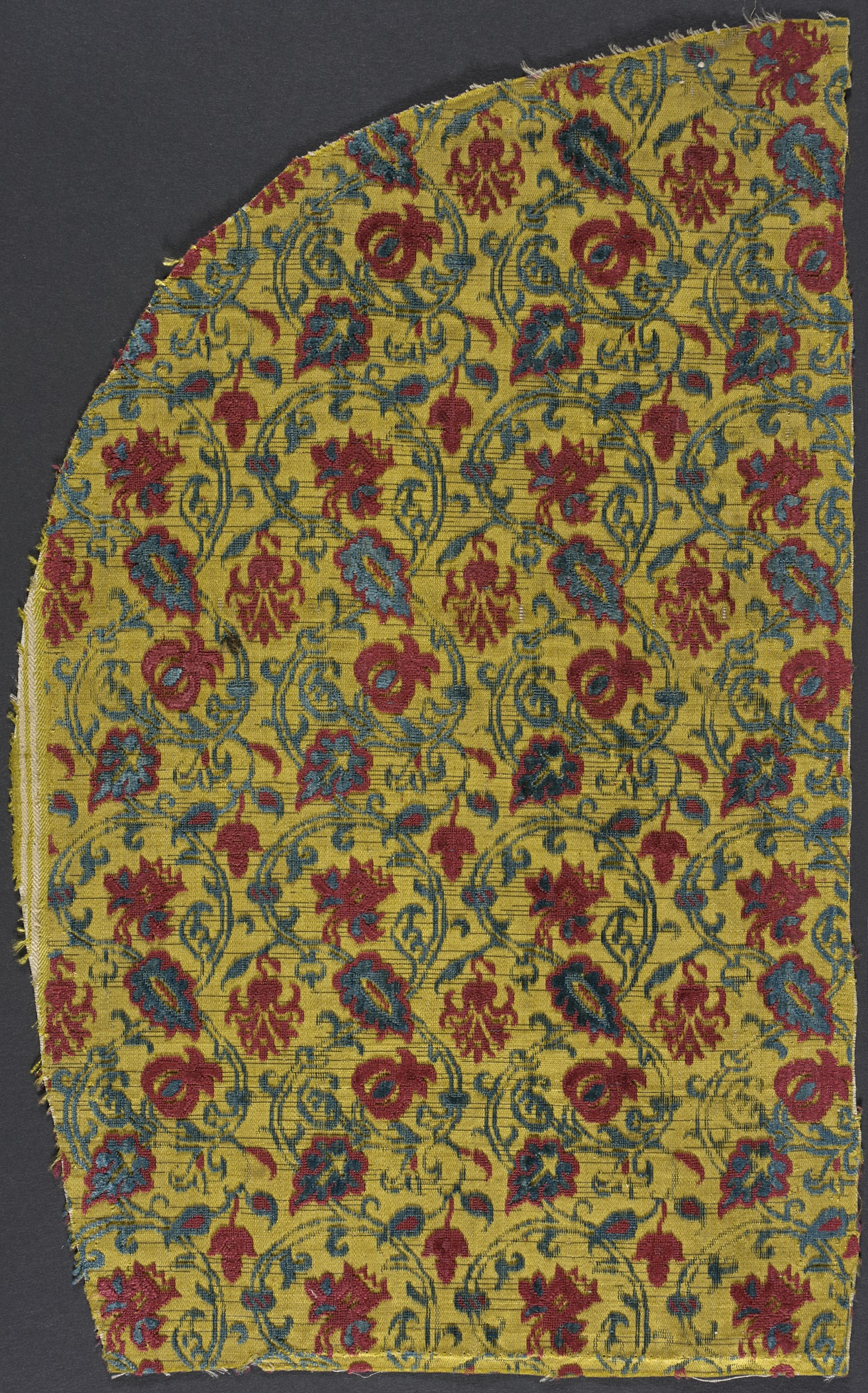 Italy, mid 16th century Textiles; fragments Two colored silk ciselé velvet on silk Costume Council Fund (M.89.176.4) Costume and Textiles